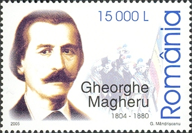 Stamps of Romania, 2005